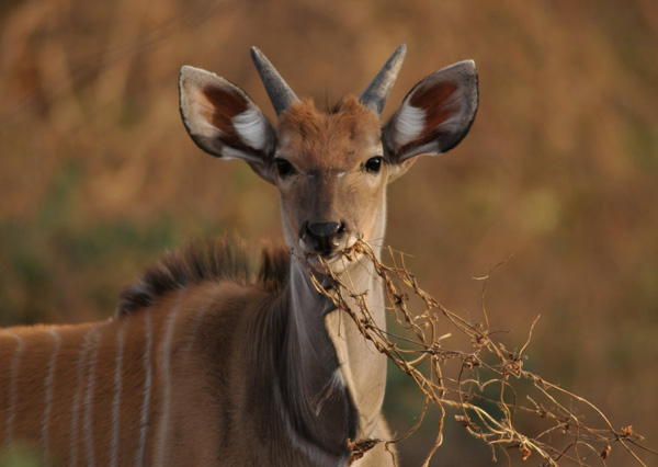 A Giant Eland eating